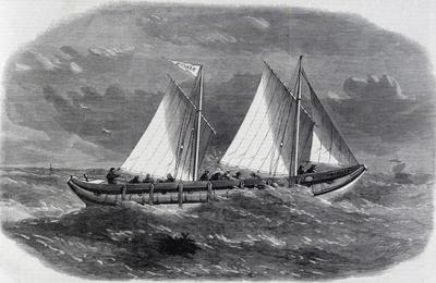 Liverpool Tubular Lifeboat - the boat was launched on the 25 January 1863 after a procession through New Brighton.